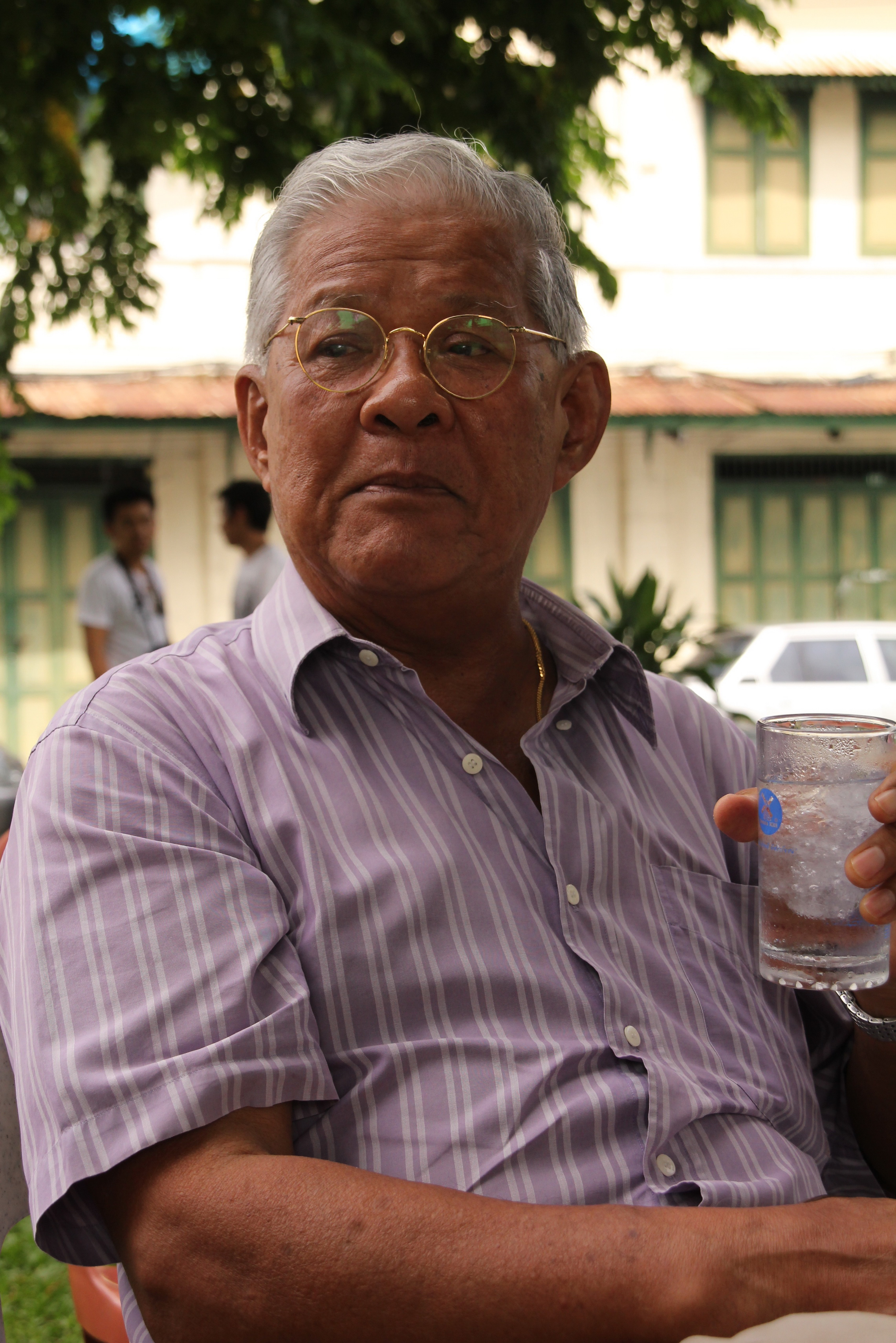 Assoc Prof Srisak Valipodom, a famous scholar in Anthropology, during his informal lecture at Prang Bhuthorn old community, Bangkok, Thailand on Saturday afternoon 31st July 2010. (By A. Aruninta)